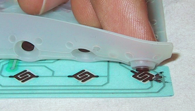 (2 of 3) Construction of a typical notebook computer dome-switch keyboard.